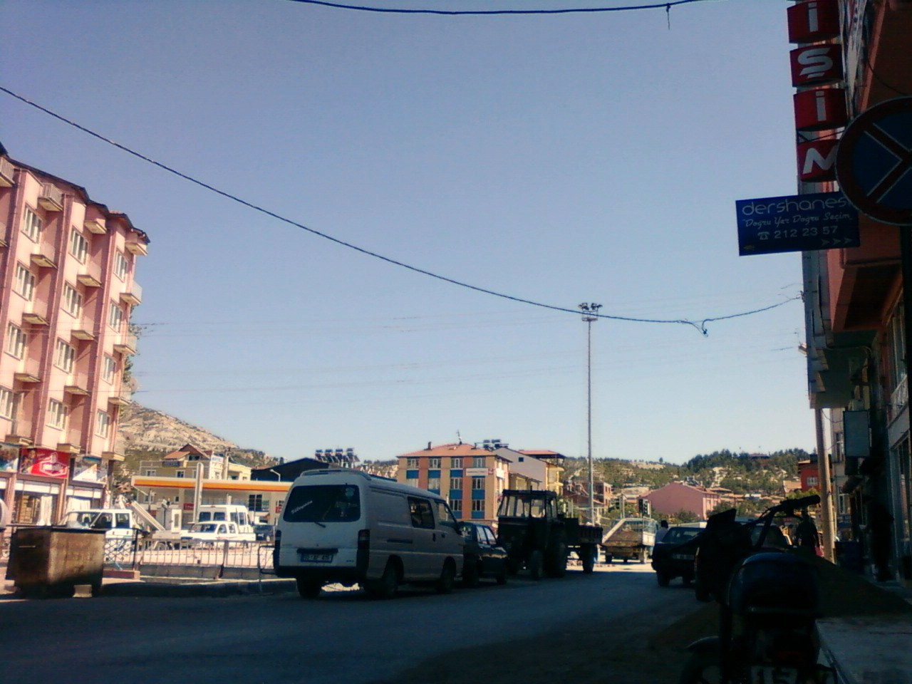 Burdur city center